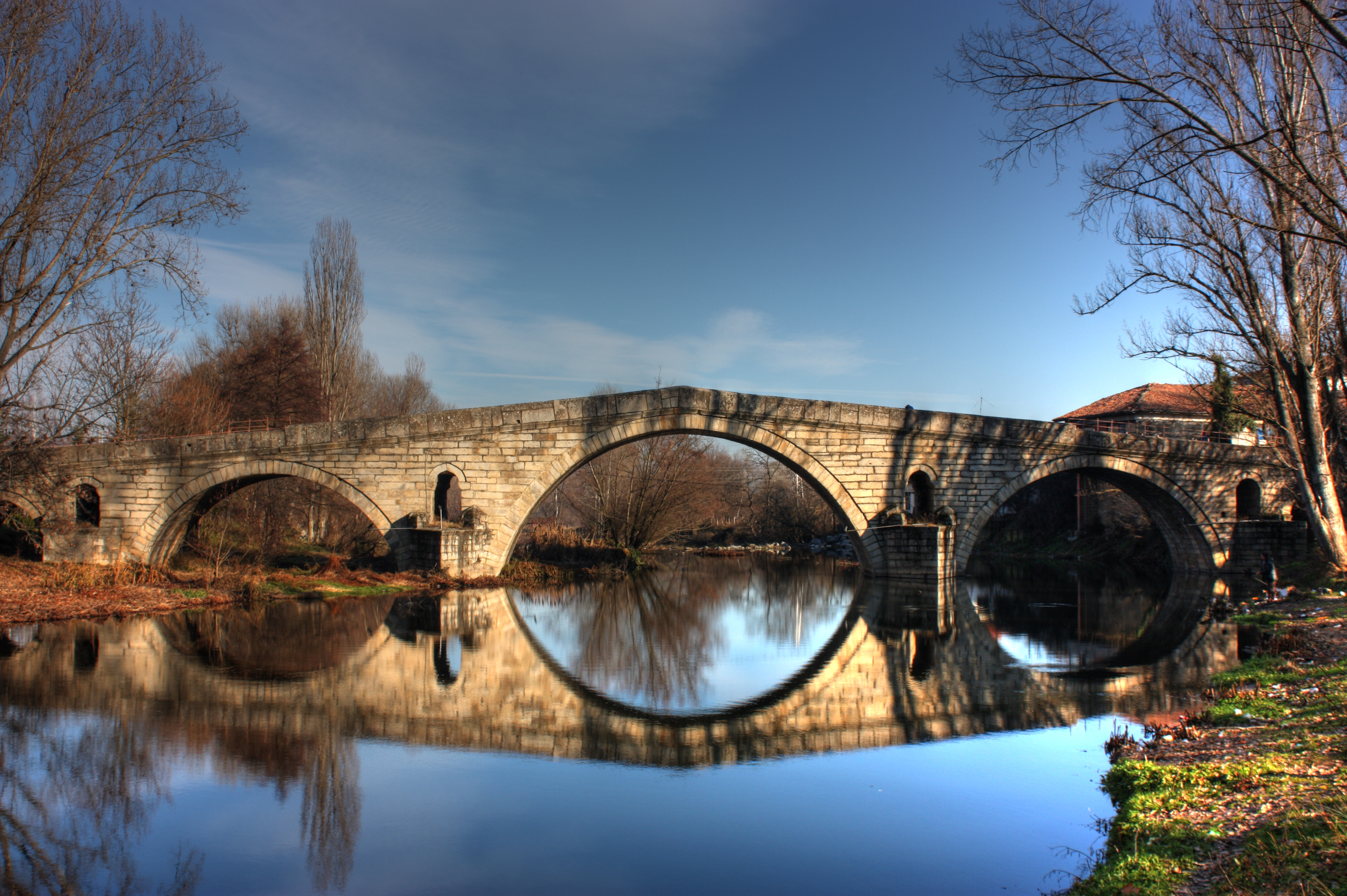 Τhe famous bridge "Kadin most" (The bridge of the qadi) in the Bulgarian village Nevestino has existed since 1470...